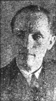 Viktor Avbelj - Rudi (1914-1993), Slovene partisan and communist politician